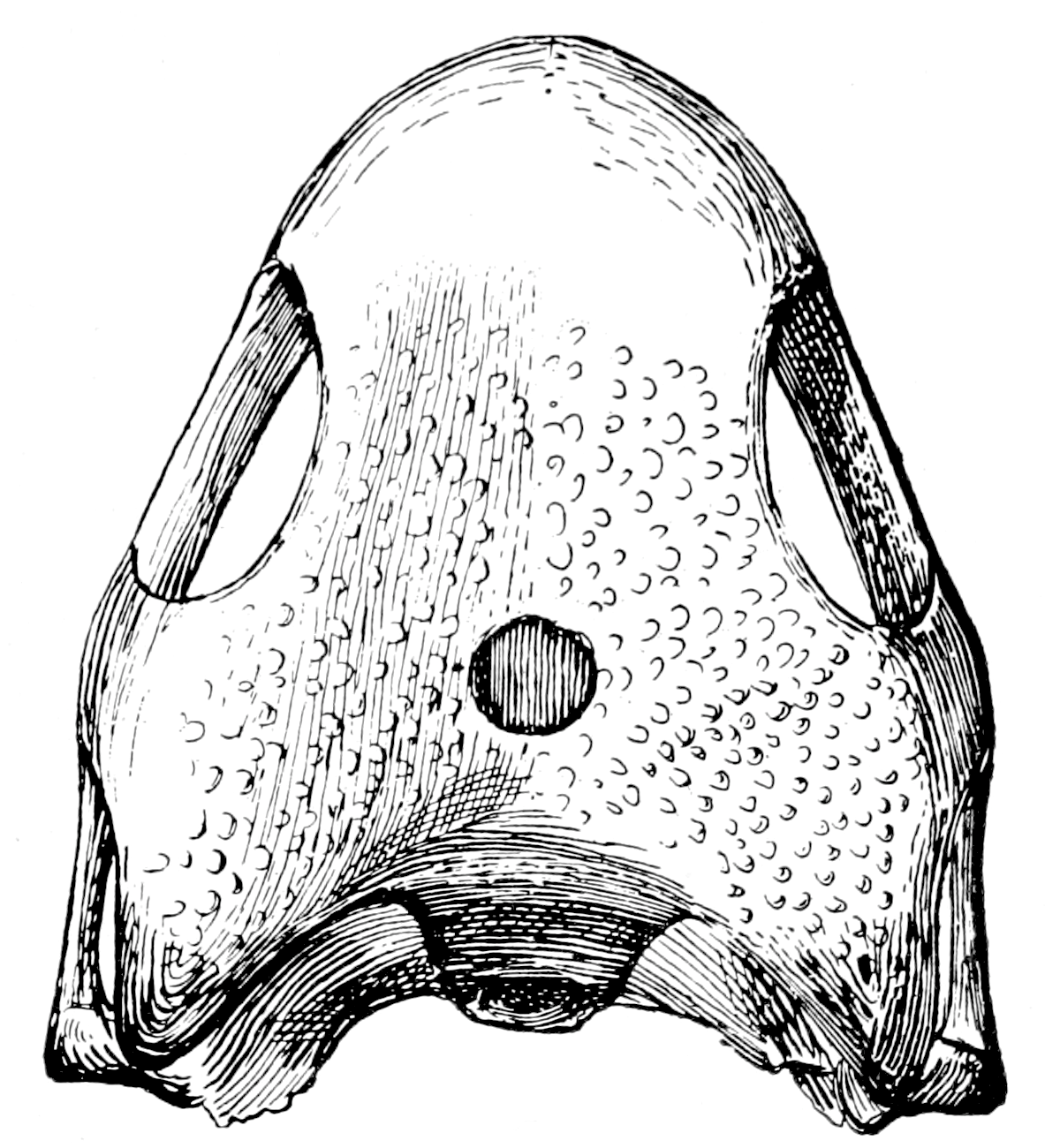 Illustration of Casea broilii skull (from above) from The Osteology of the Reptiles (1925)